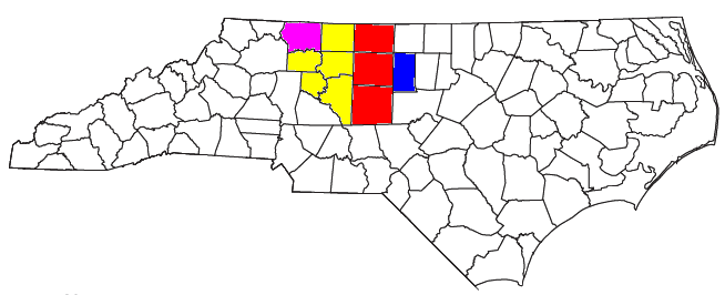 Locator map of the Greensboro-Winston-Salem-High Point Combined Statistical Area in the northern part of the U.S. state of North Carolina. The four components of the CSA are colored separately: Greensboro-High Point Metropolitan Statistical Area: red Winston-Salem Metropolitan Statistical Area: yellow Burlington Micropolitan Statistical Area: blue Mount Airy Micropolitan Statistical Area: purple